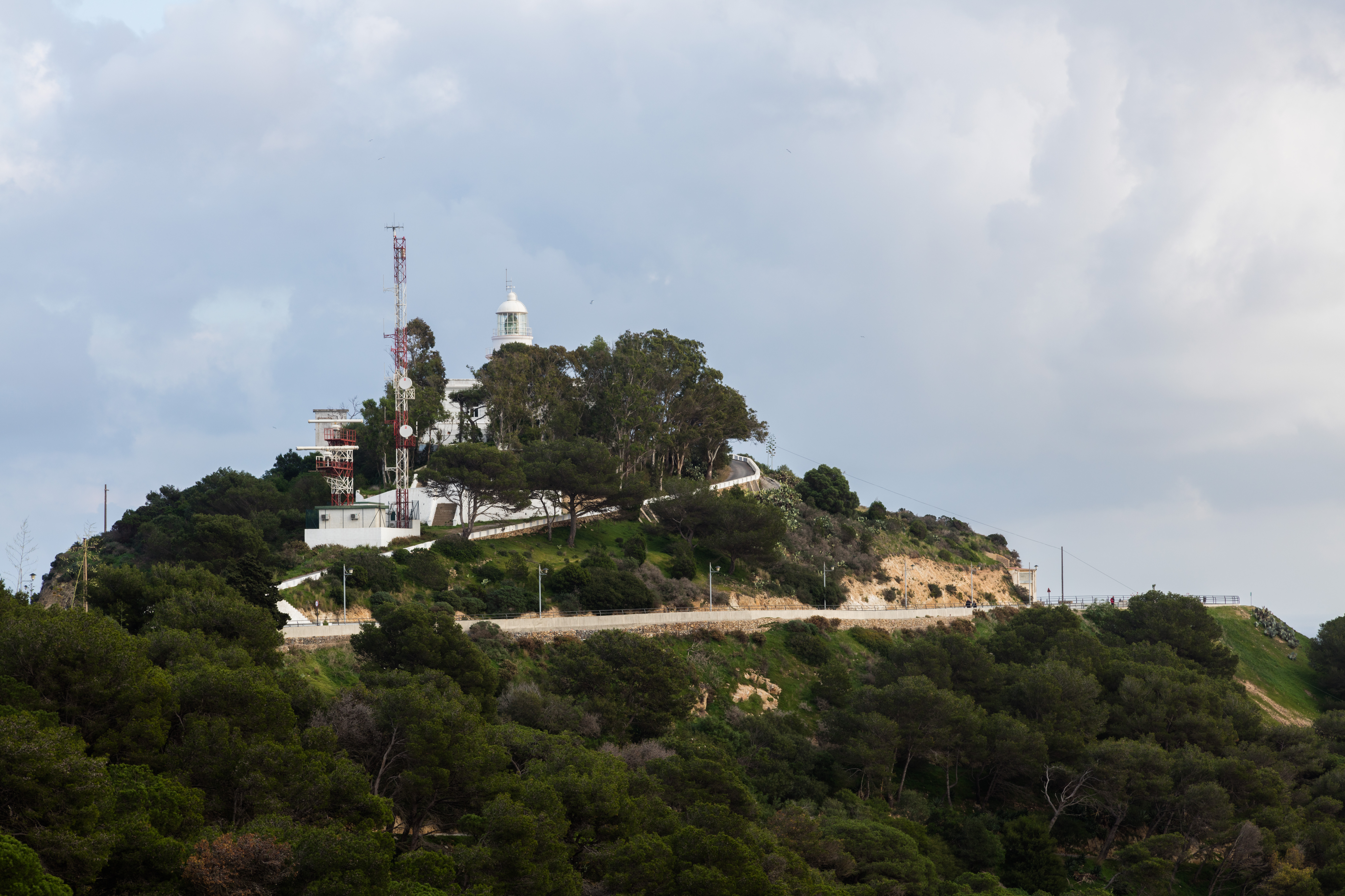 Lighthouse of Punta Almina, Ceuta, Spain